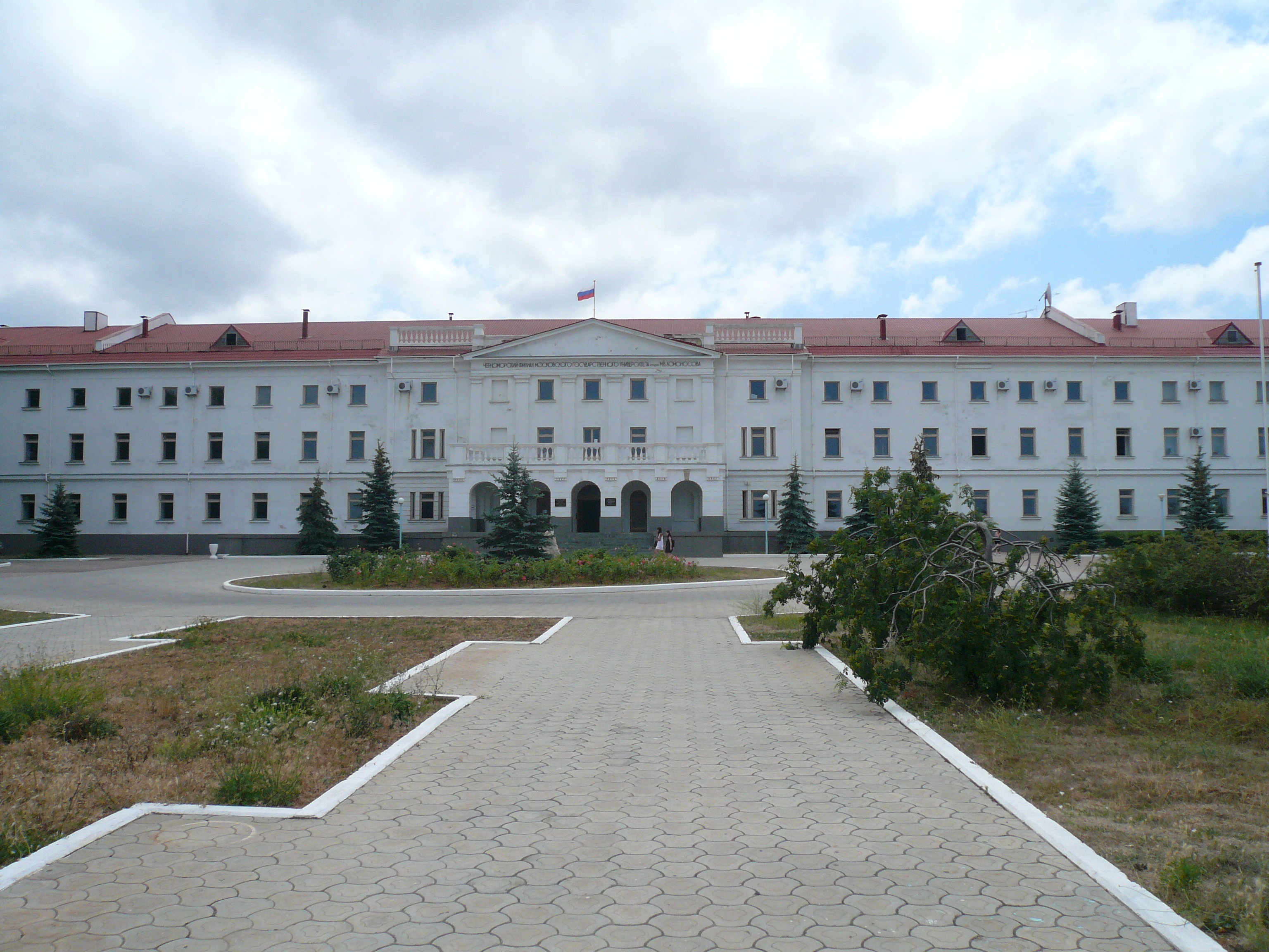 Branch of Lomonosov Moscow State University at Sevastopol, Ukraine